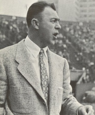 Pitt Panthers football coach John Michelosen